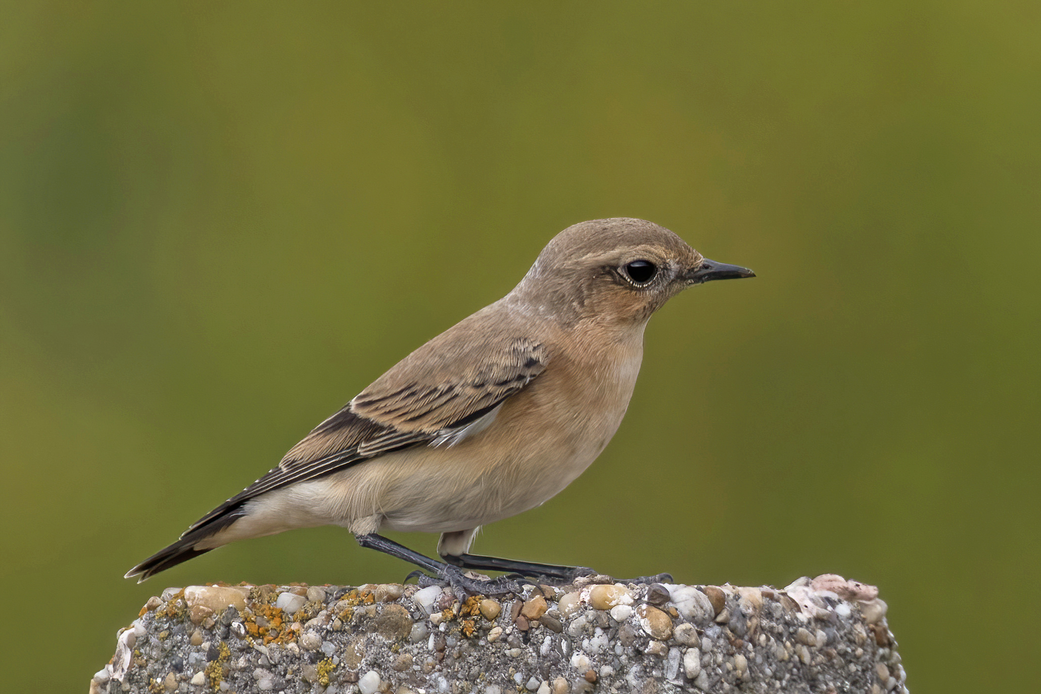 Northern wheatear (Oenanthe oenanthe) female, near Kecskemét, Hungary